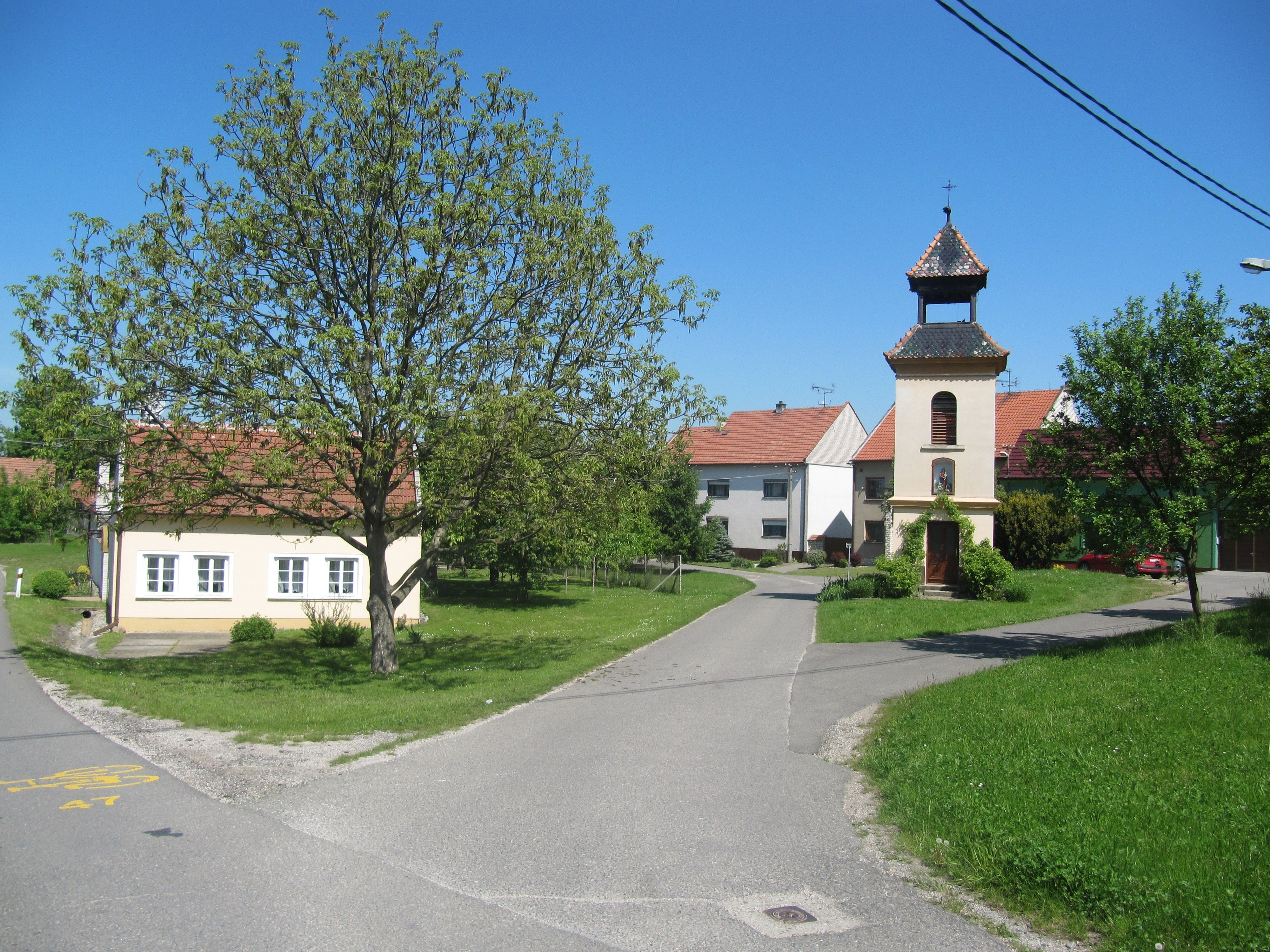 Uherský Ostroh in Uherské Hradiště District, part Kvačice, Czech Republic. Common with belfry.